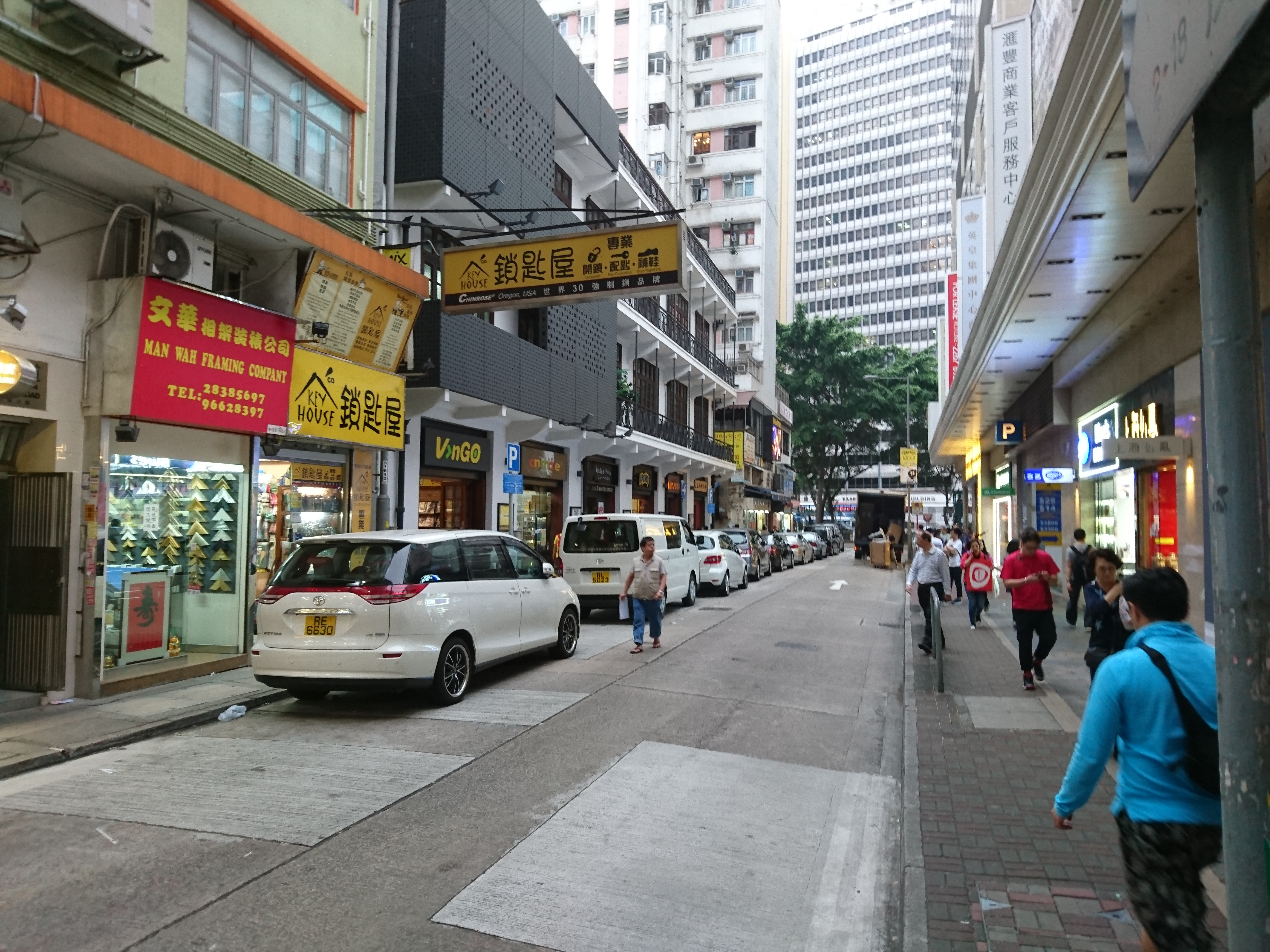 Mallory Street in 2016